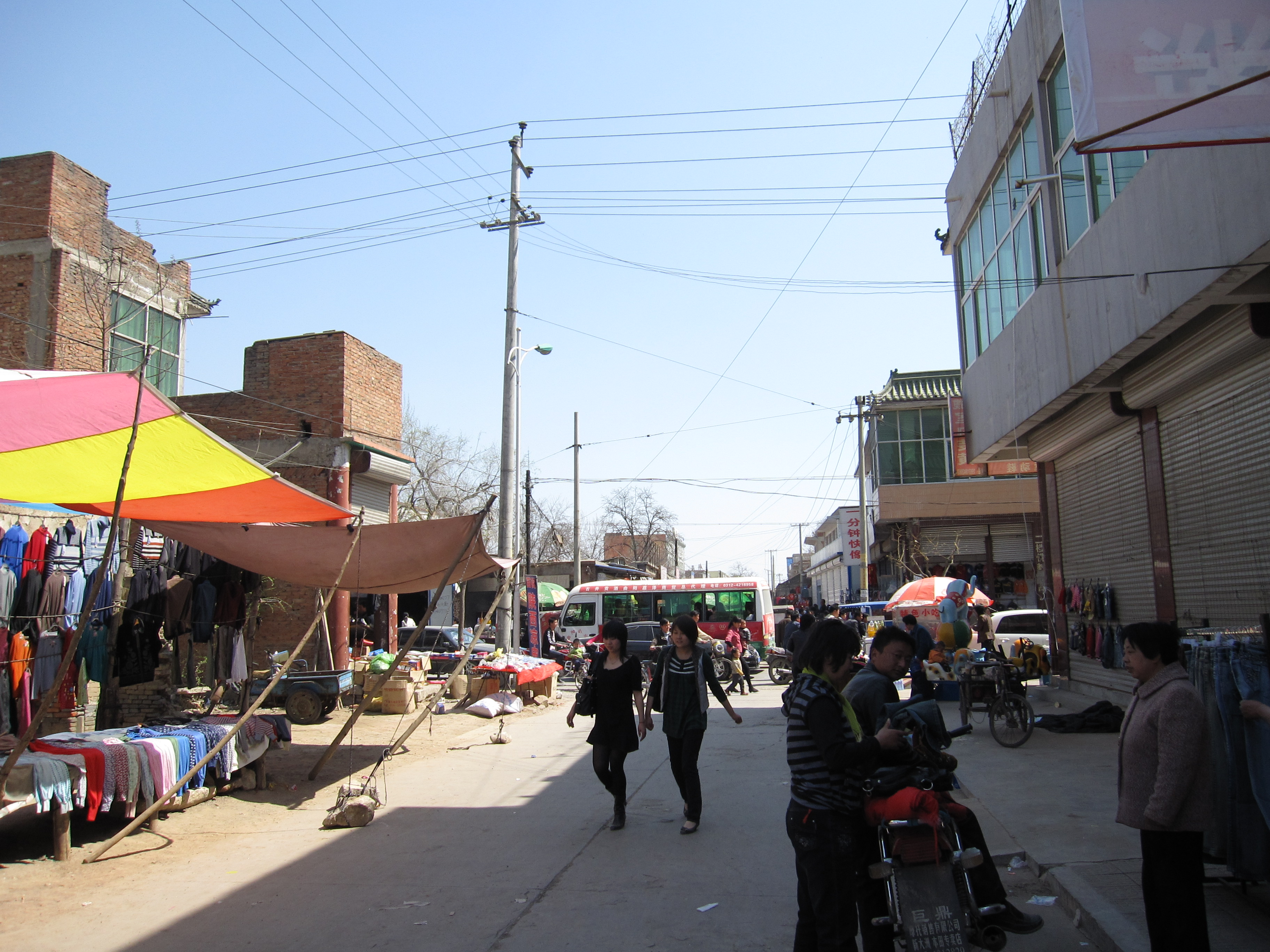 A street in Quyang, China.